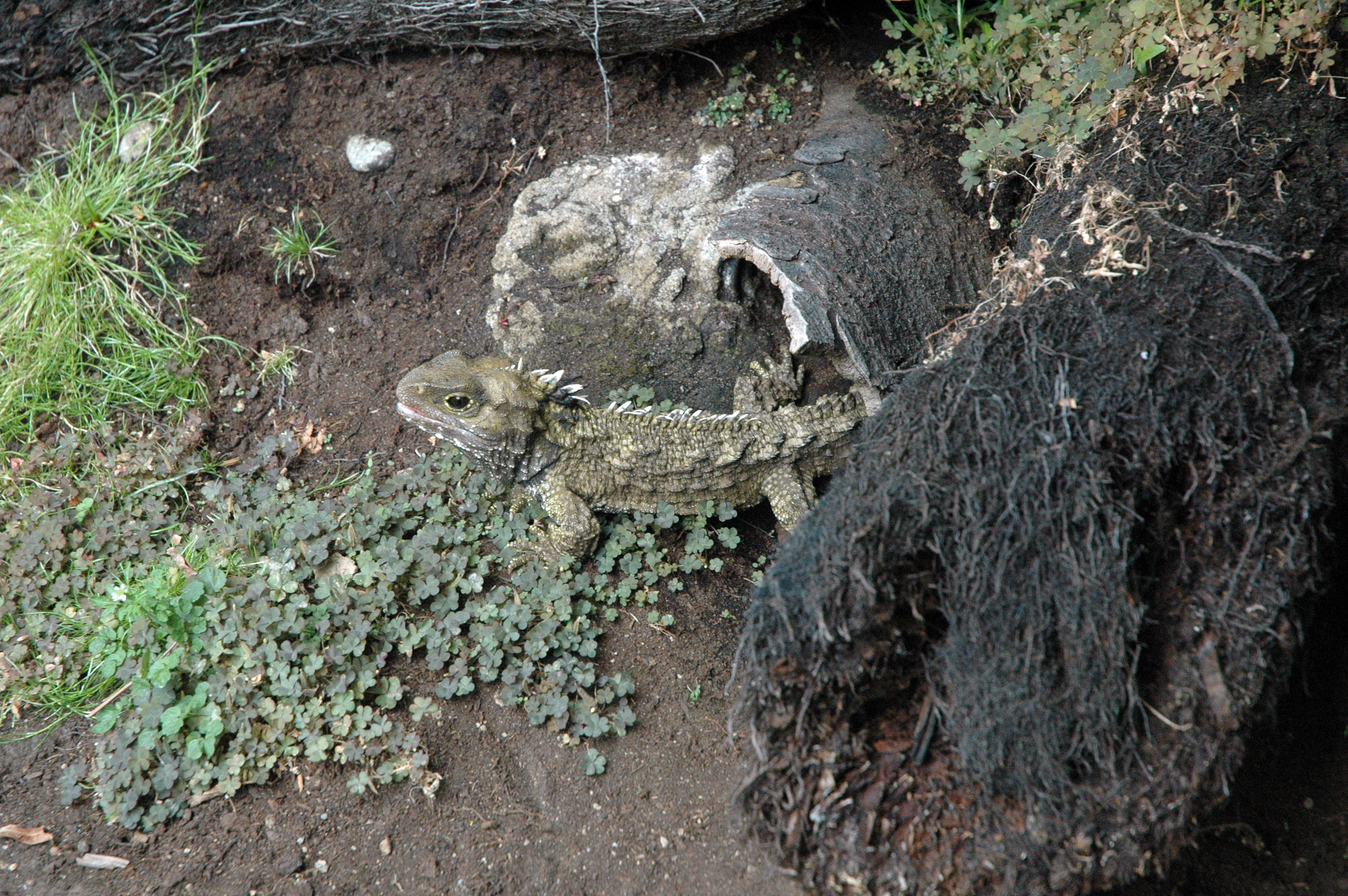 Young adult Tuatara at Invercargill